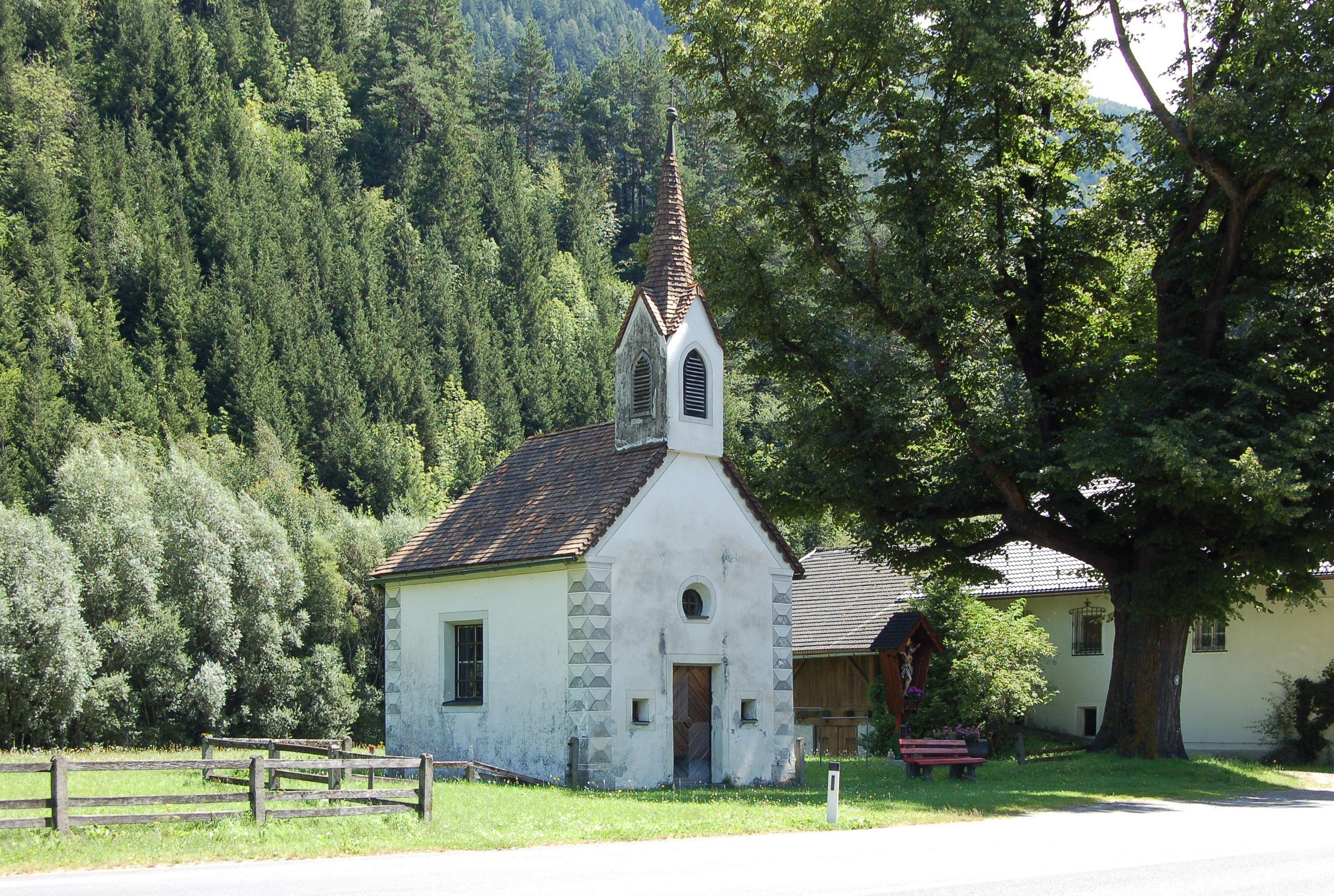 Die Kapelle in Unterleibnig (Gemeinde St. Johann im Walde) This media shows the natural monument in the Tyrol with the ID ND_7_14.